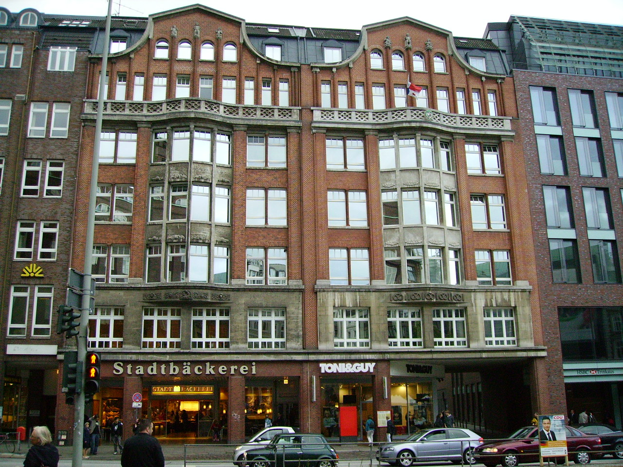 Office building with the Panamanian consulate-general in Hamburg, Gänsemarkt #44